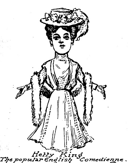 Hetty King caricature in the New York Clipper drawn by P. Richards